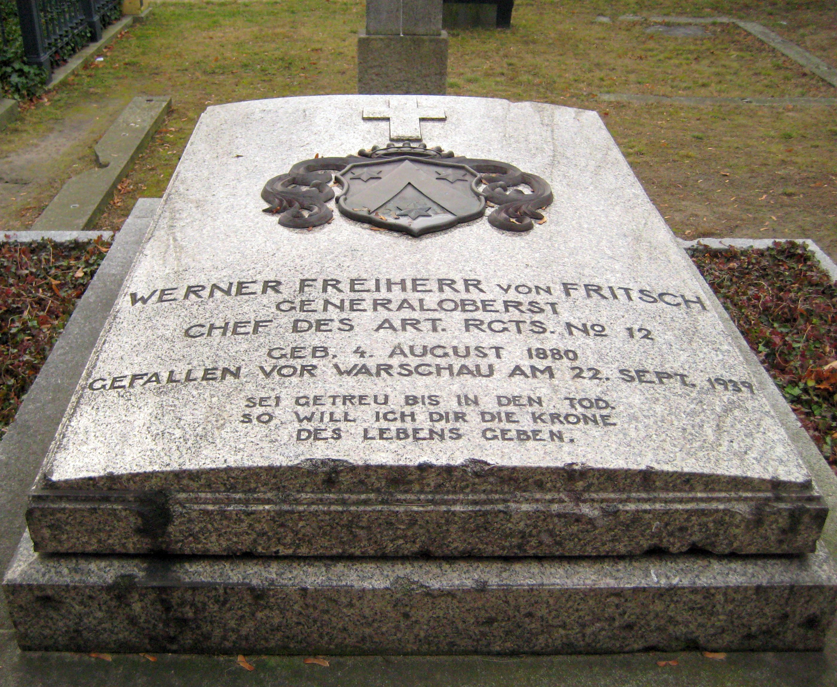 grave of Werner von Fritsch on Invalidenfriedhof cemetery in Berlin (1939) English translation: Werner Baron Von Fritsch Colonel General Chief of 12th Artillery Regiment Born 4 August 1880 Killed at Warsaw on 22 September 1939 Be faithful, even to the point of death, and I will give you the crown of life. (Revelation 2:10)